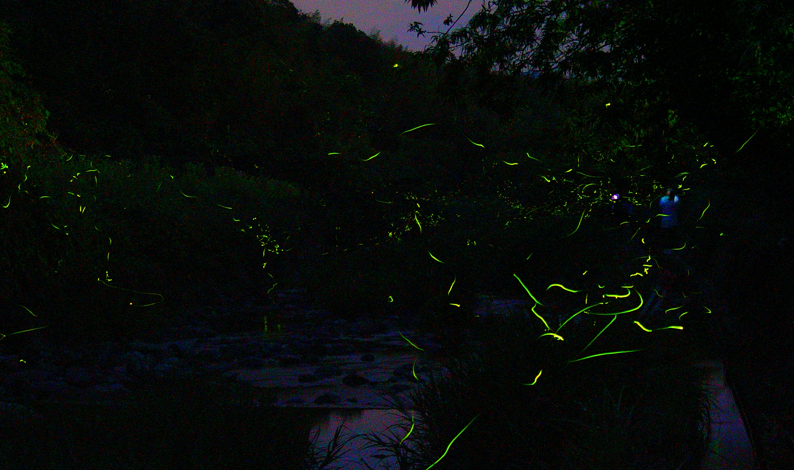 Fireflies (Luciola cruciata) in Shimonoseki City, Yamaguchi Prefecture, Japan